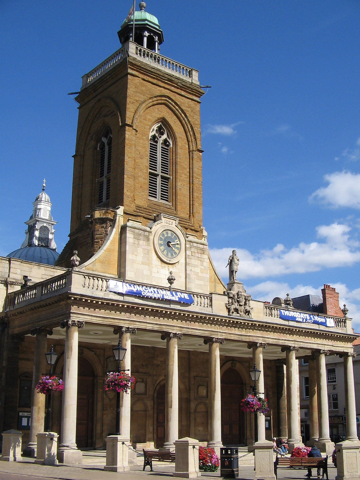 West front of All Saints' parish church, Northampton, England